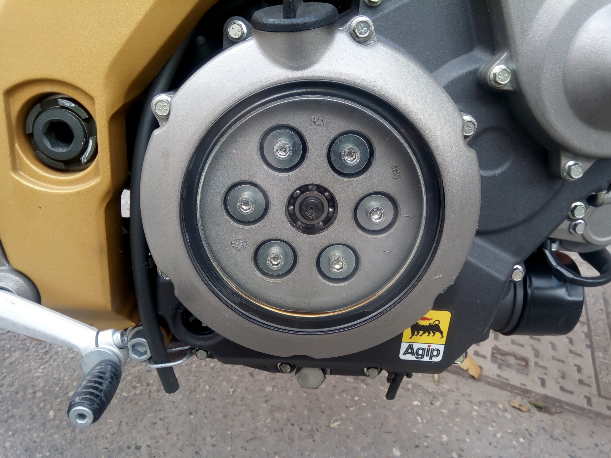 Sump clutch fitted with inspection and decorative window